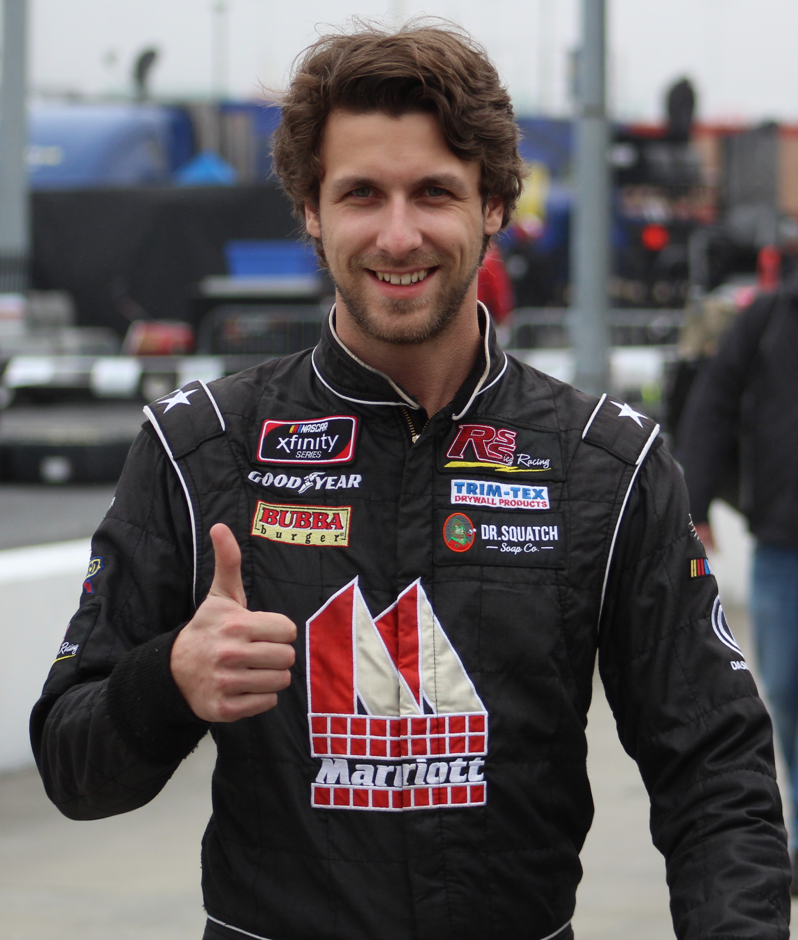 2019 Folds of Honor QuikTrip 500